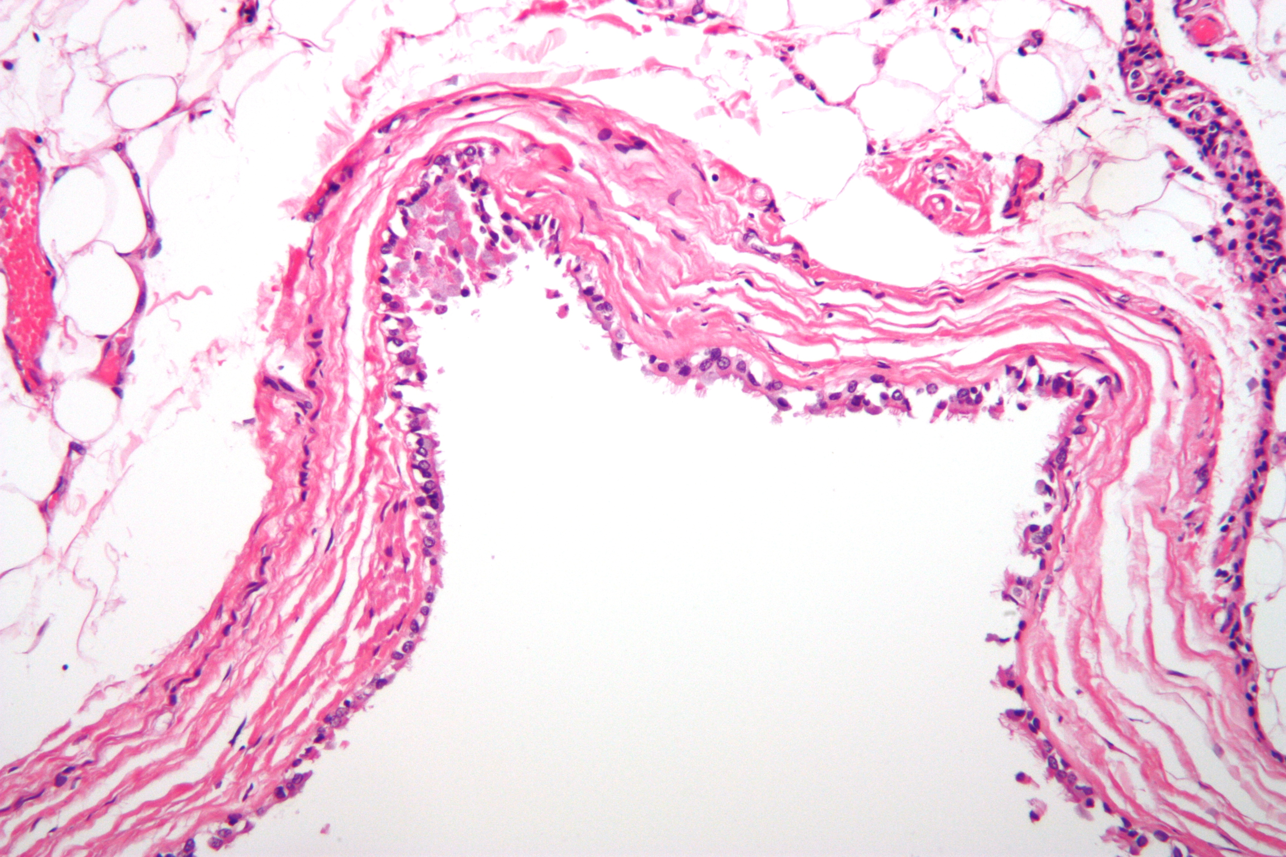 High magnification micrograph of a mediastinal bronchogenic cyst. H&E stain. Features: Simple cyst lined by respiratory type epithelium with cilia.